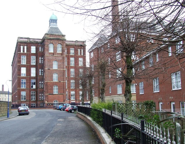 Mile End Mill With sympathetic new housing alongside.